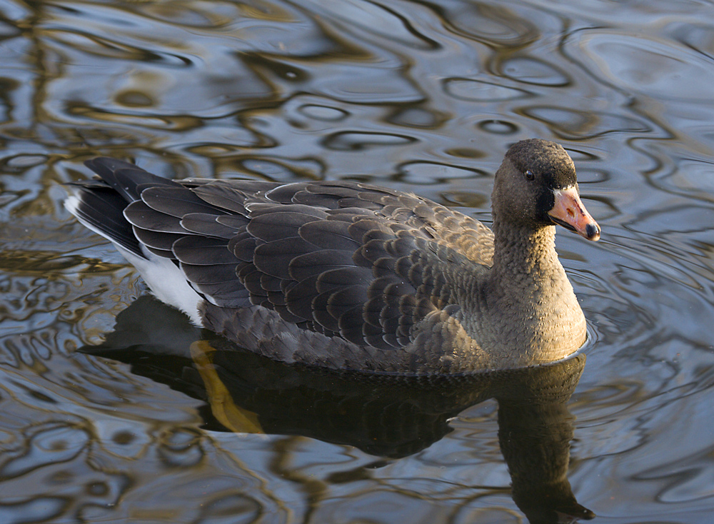 young White-fronted Goose in first Winter, picture taken December 2007 , Berlin.